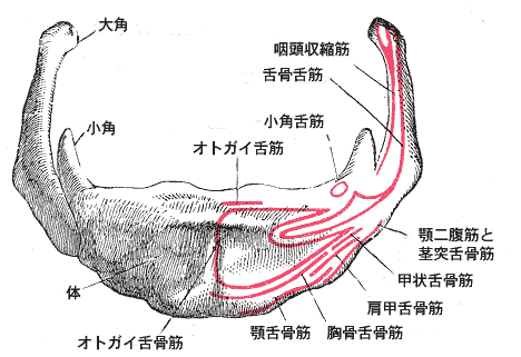 Hyoid bone. Anterior surface. Enlarged.